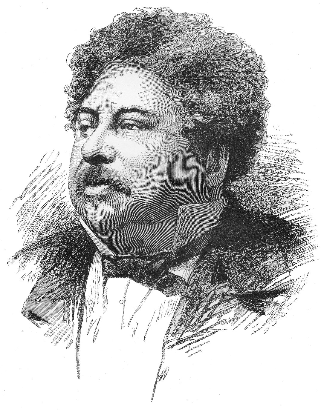 Alexandre Dumas (father)